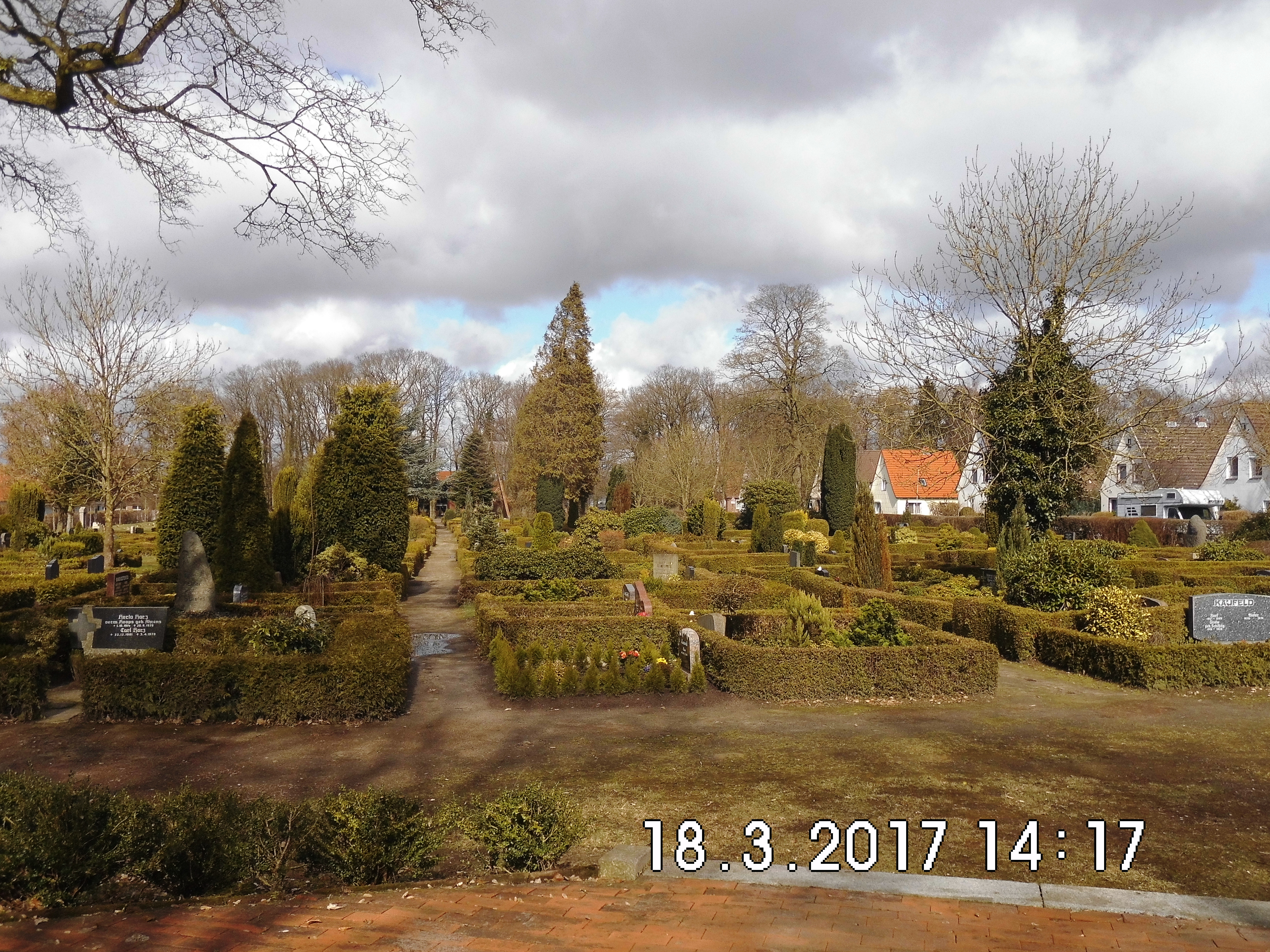 Himmelpforten Cemetery - overview